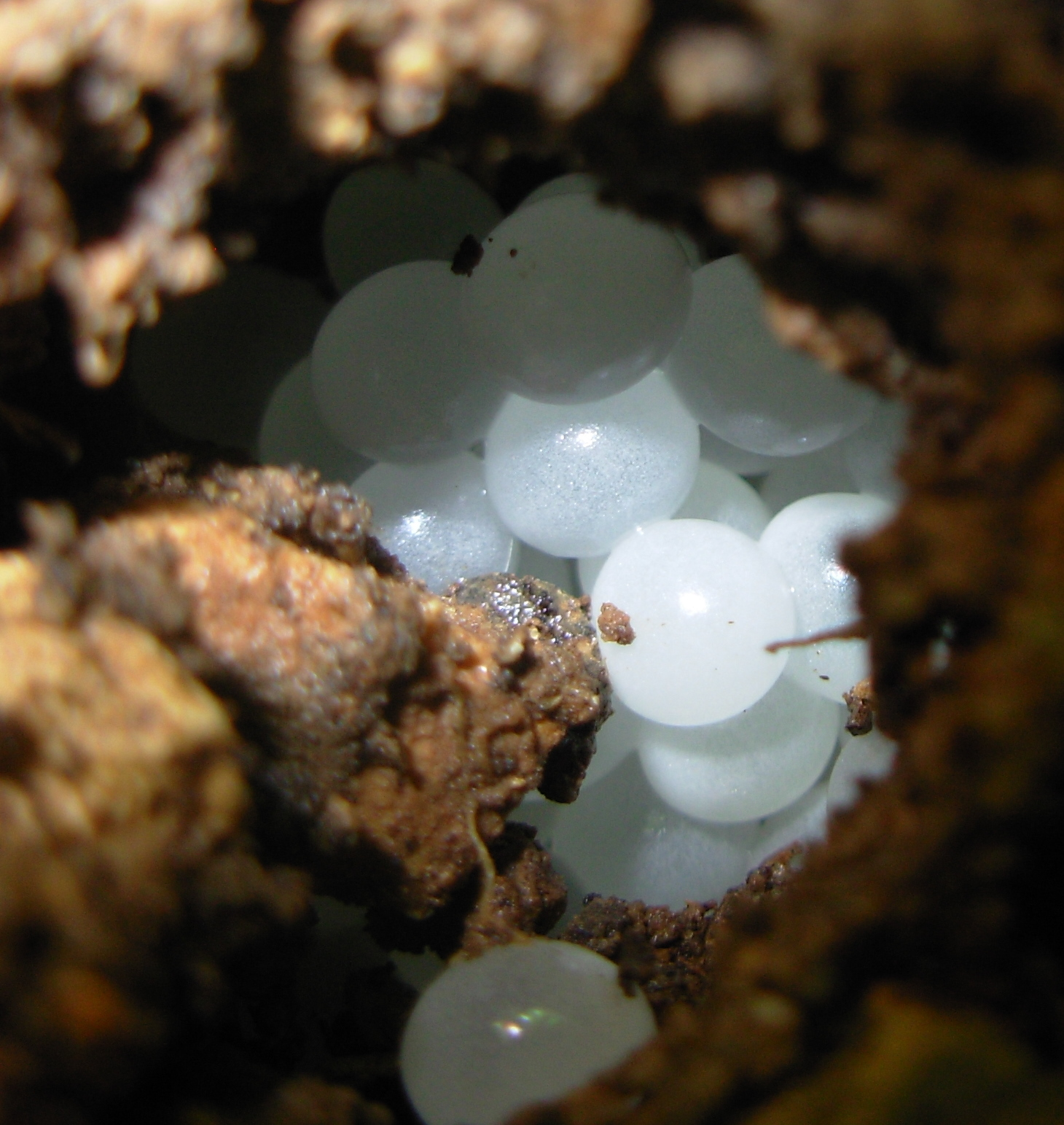 The eggs of a garden snail (helix aspersa) inside in a hole in the ground